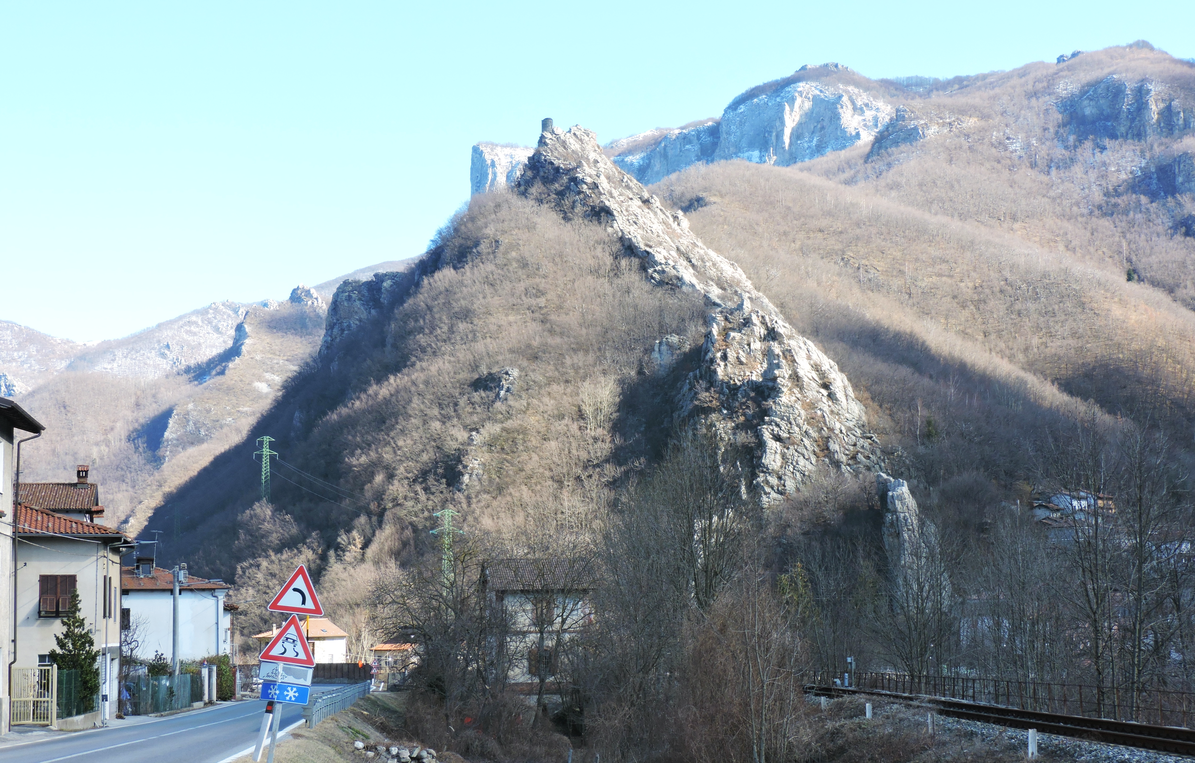 Barchi tower (Upper Tanaro Valley, CN, Italy)